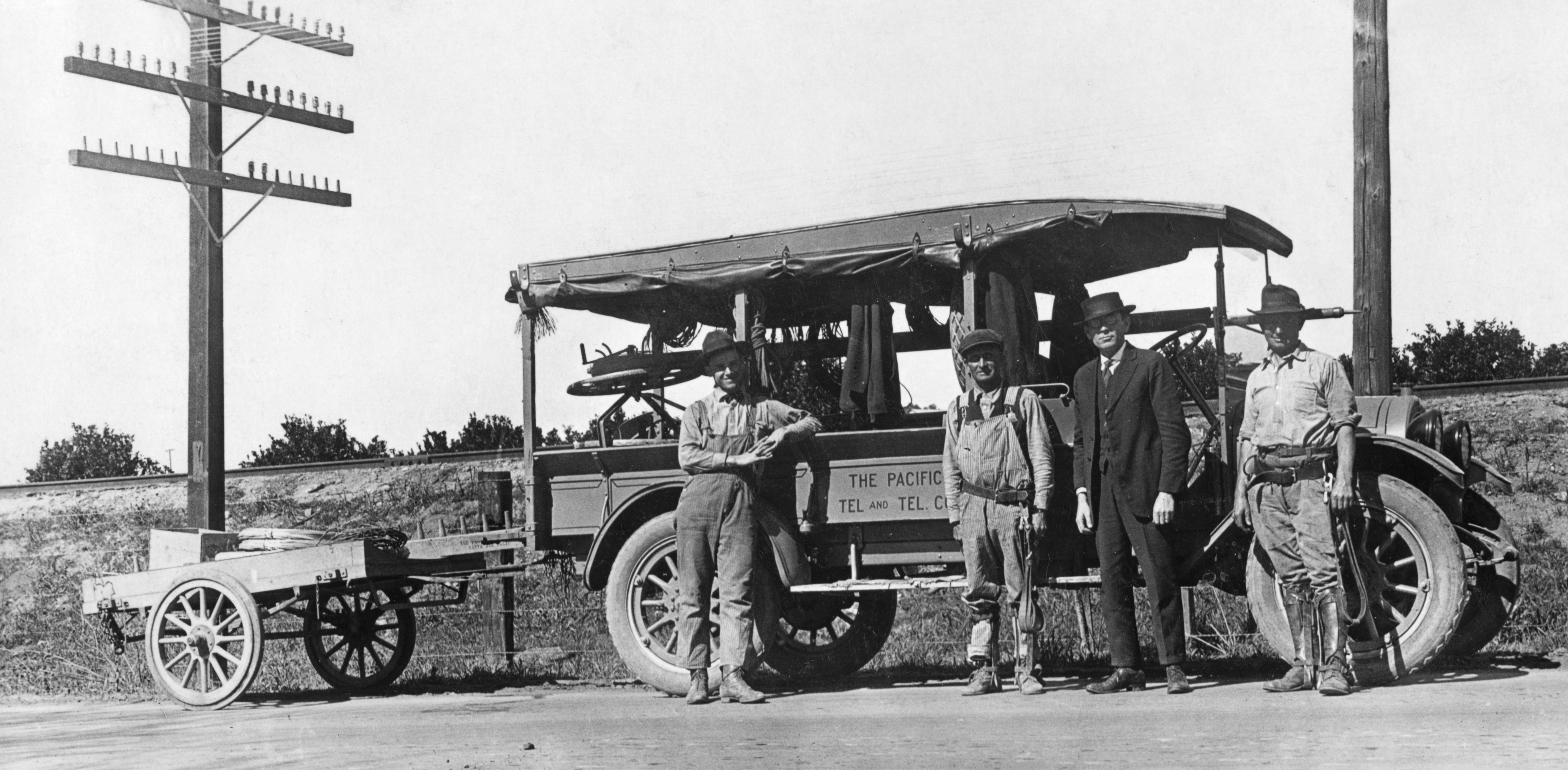 There are no known copyright restrictions on this image. All future uses of this photo should include the courtesy line, "Photo courtesy Orange County Archives." Comments are welcome after reading our Comment Policy. Photo from the Bolles Collection, Ac#2015.7